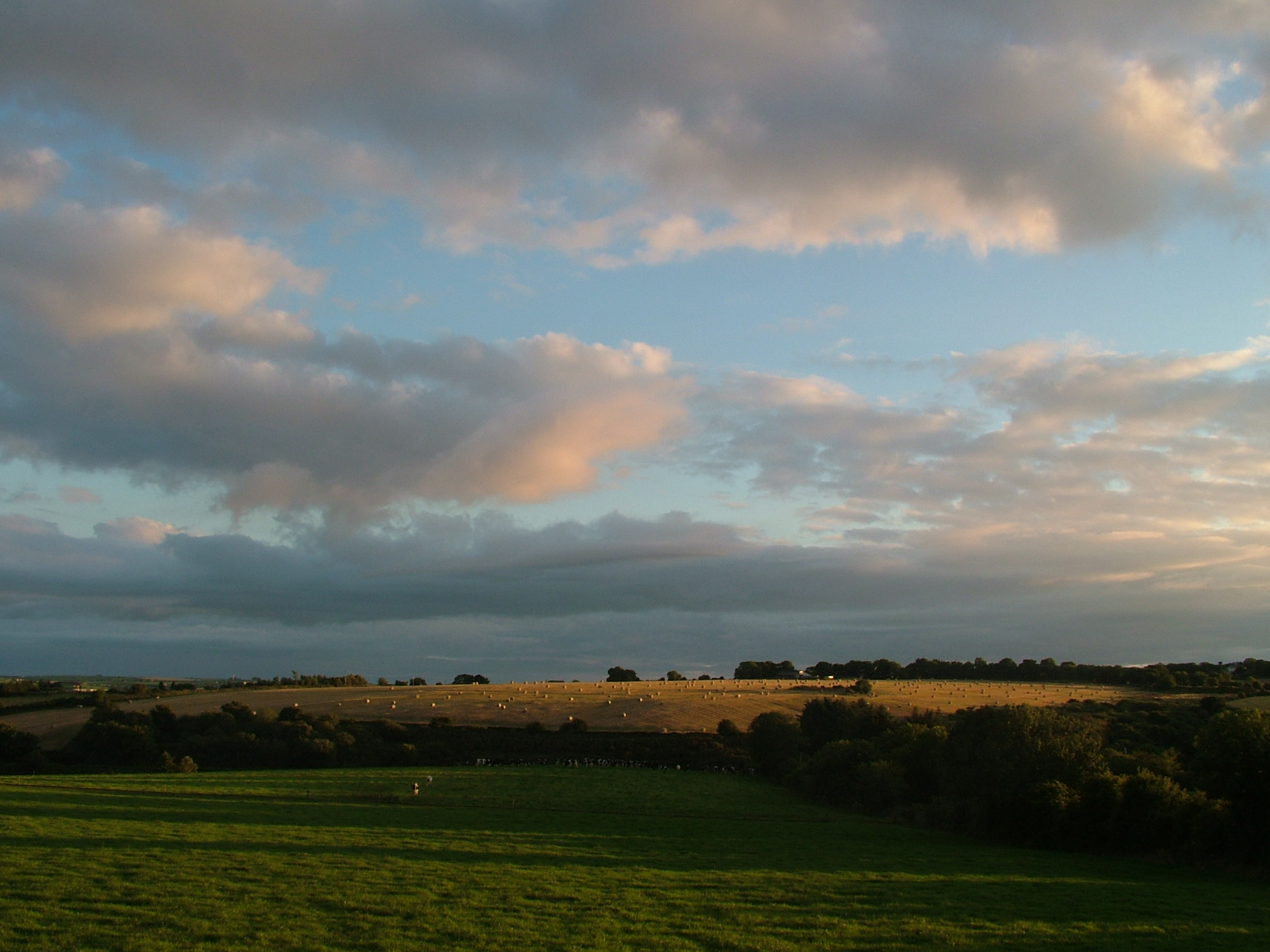 Cork country side, Ballinhassig